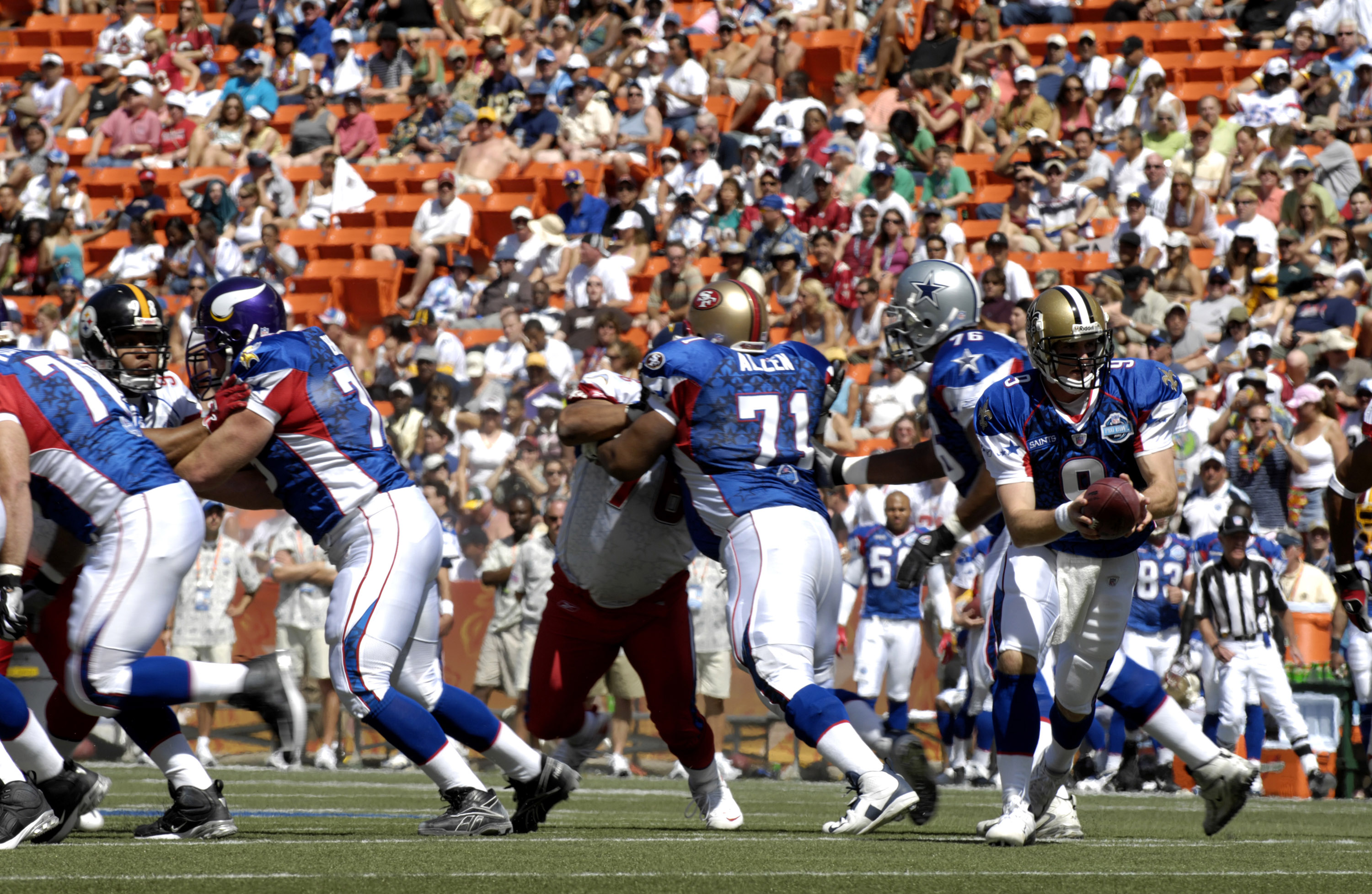 Action shot from the 2007 Pro Bowl